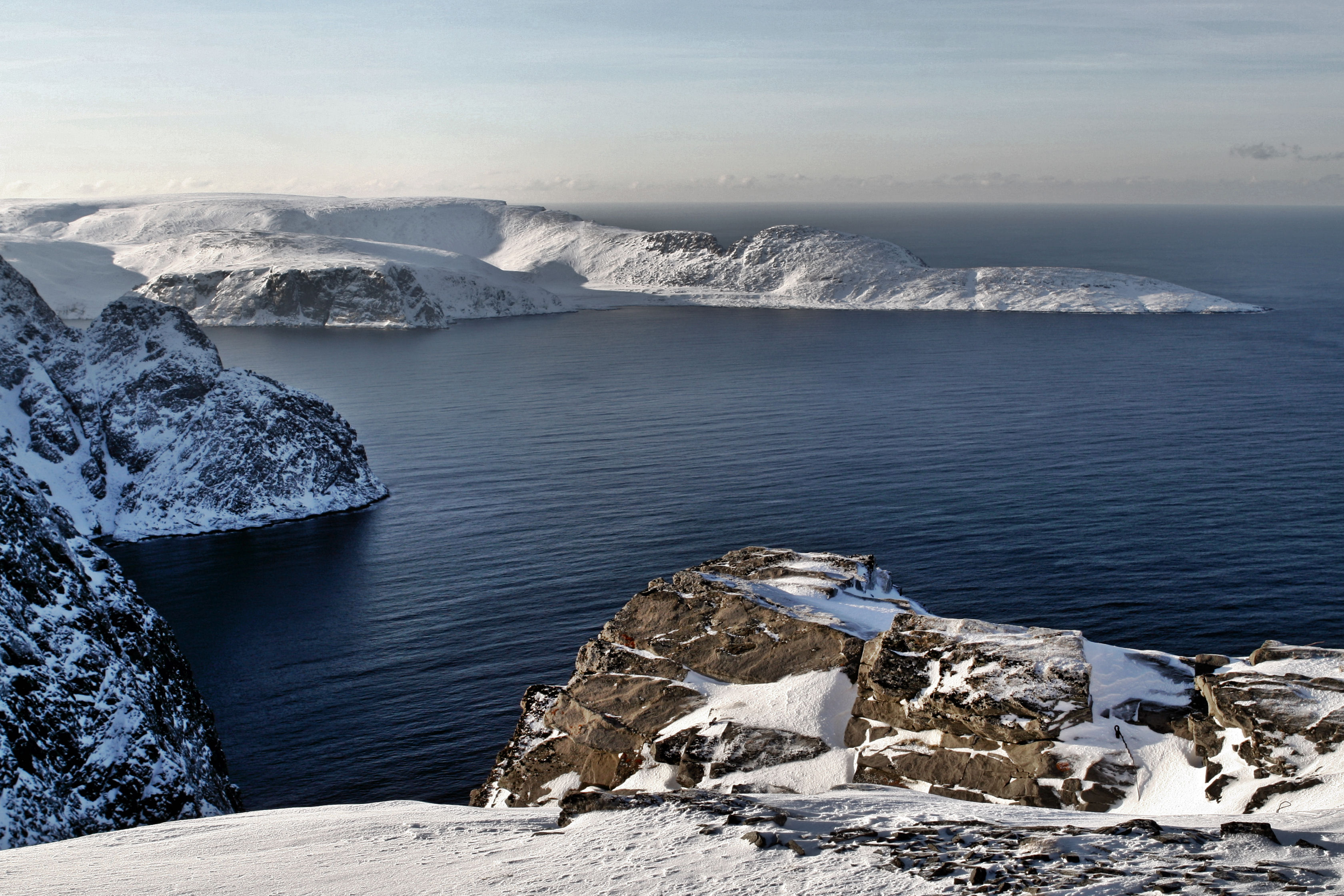 Winter 2006-2007, view from North Cape